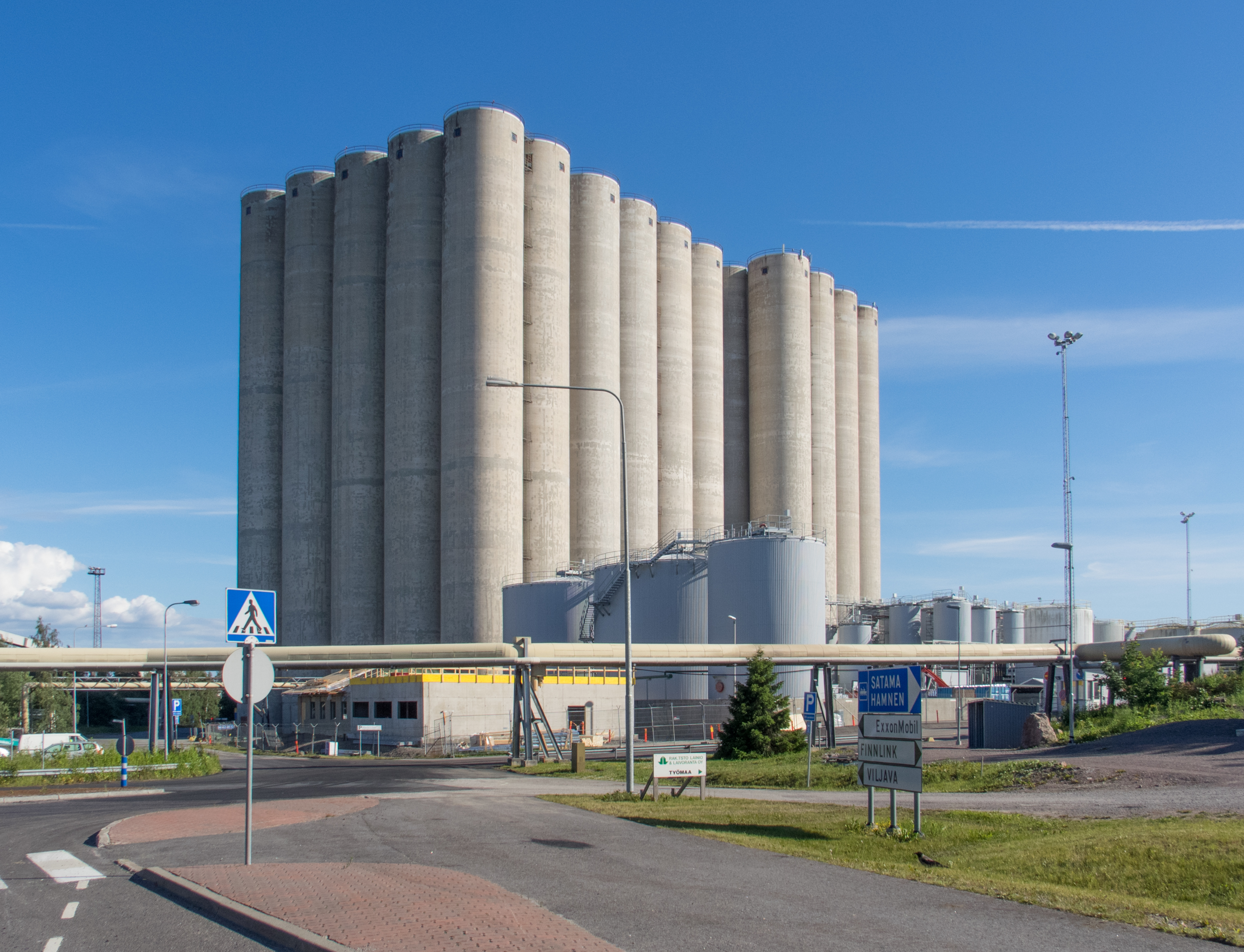 Large storage silos in the harbor of Naantali, Finland.